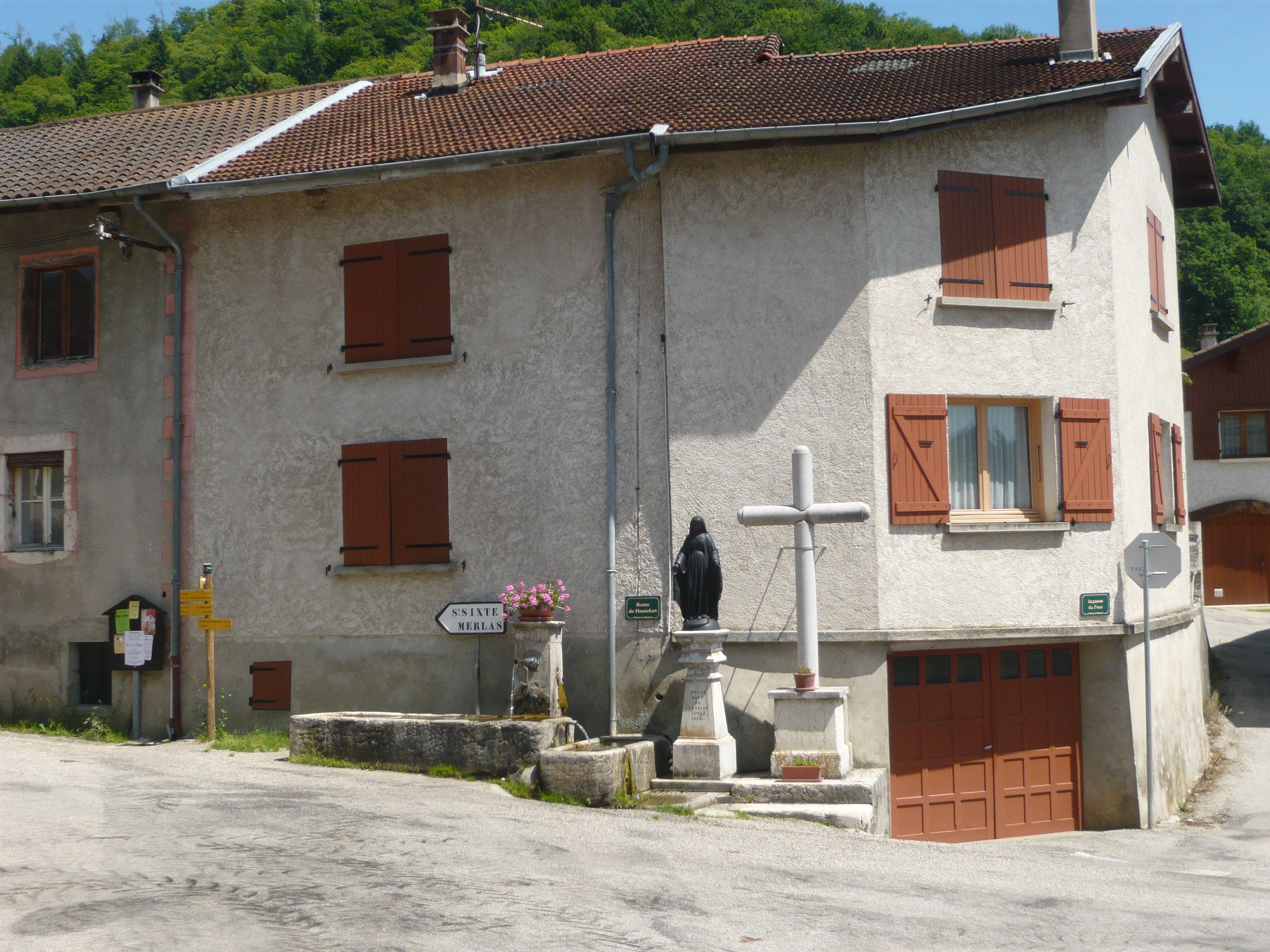 Cross and Virgin Mary statue at the central crossroad of the hamlet of Hautefort, commune of Saint-Nicolas-de-Macherin (France). June 2012